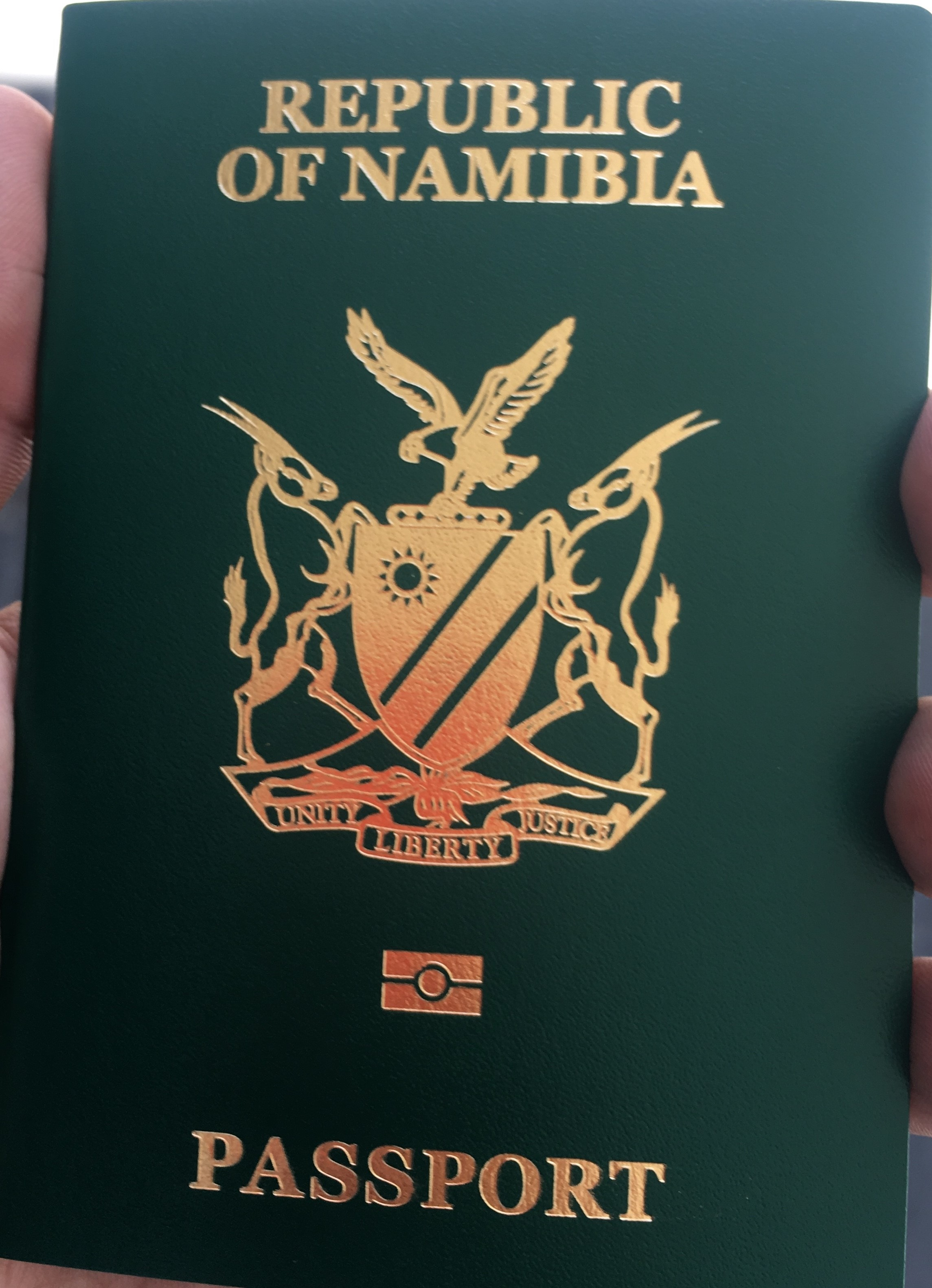 Namibian Passport